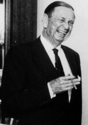 Clive Uhr, Unknown Date, at Doomben Racecourse,Queensland